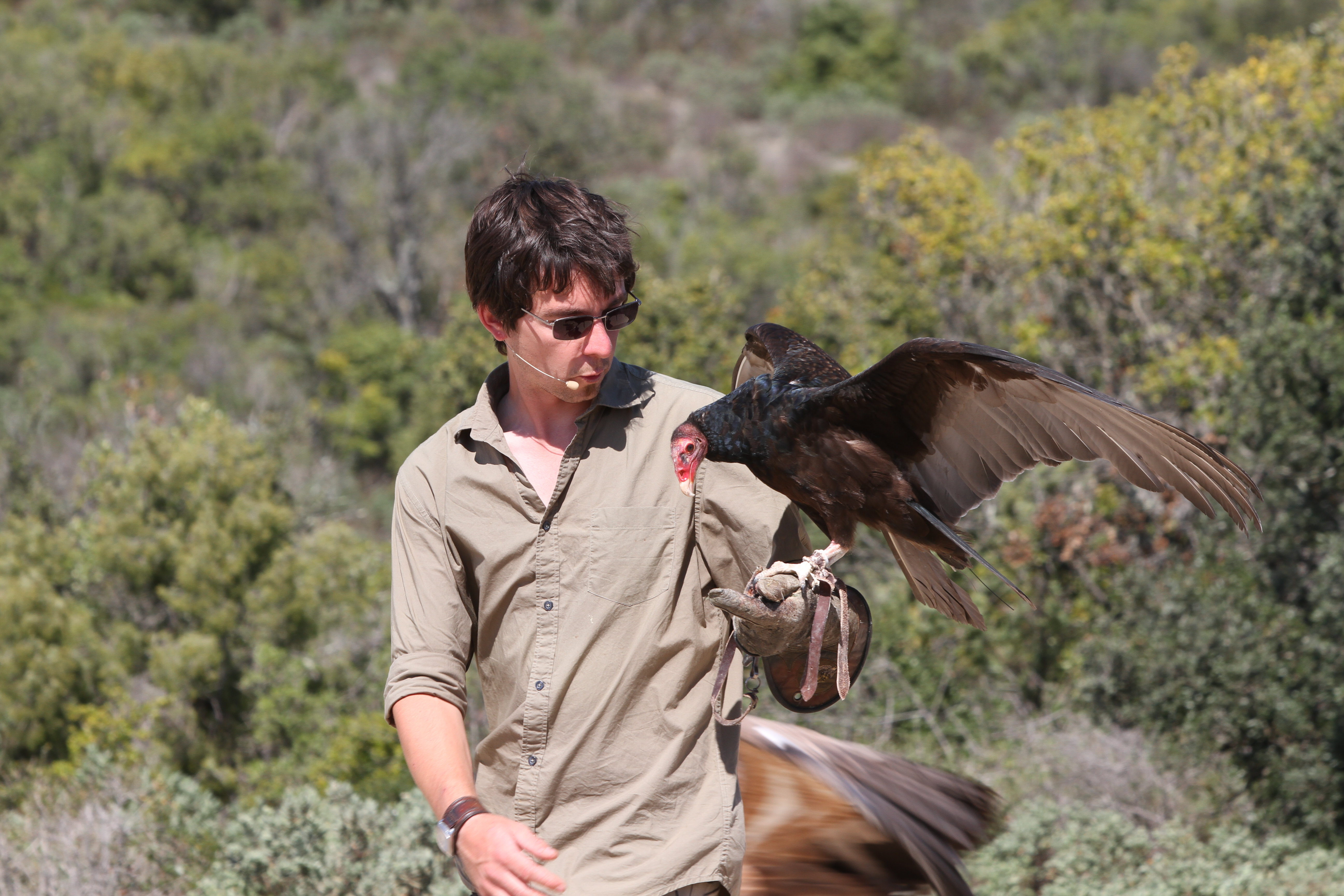 Turkey vulture (Cathartes aura) at La Barben Zoo (Bouches-du-Rhône, France)